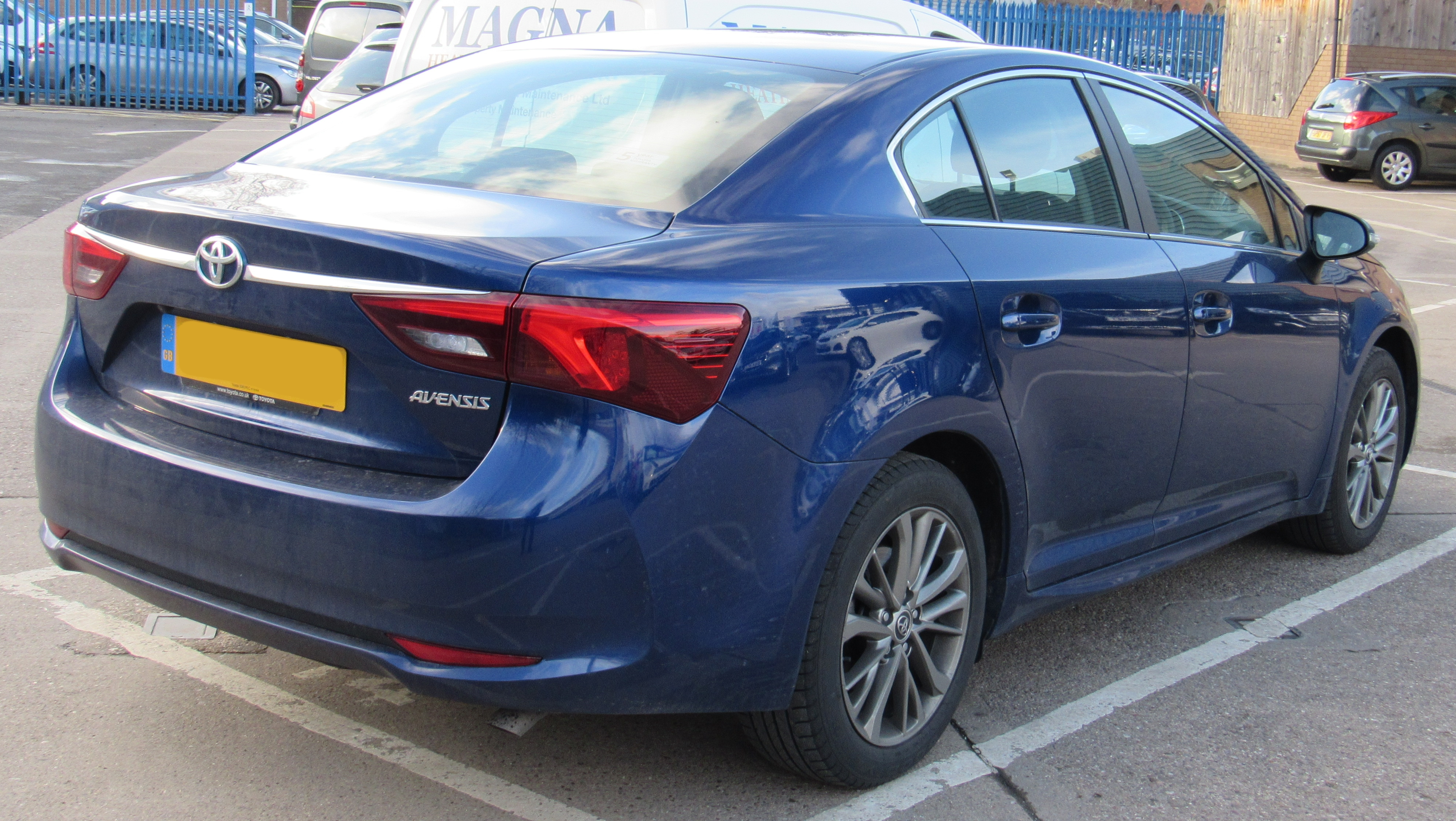 2017 Toyota Avensis Business Edition facelift 2.0 Rear Taken in Leamington Spa